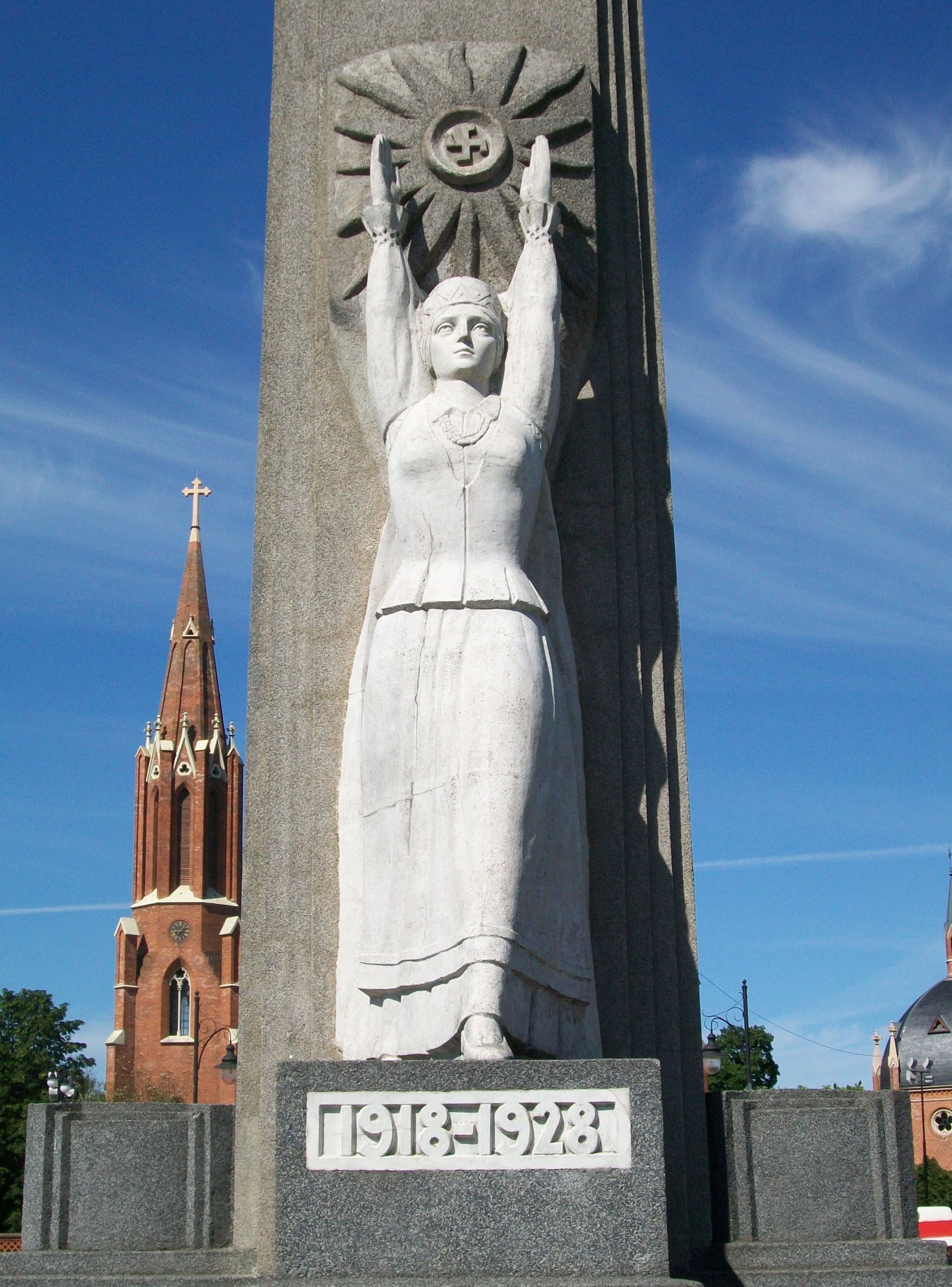 Close up of Monument to Freedom, Rokiškis, Lithuania